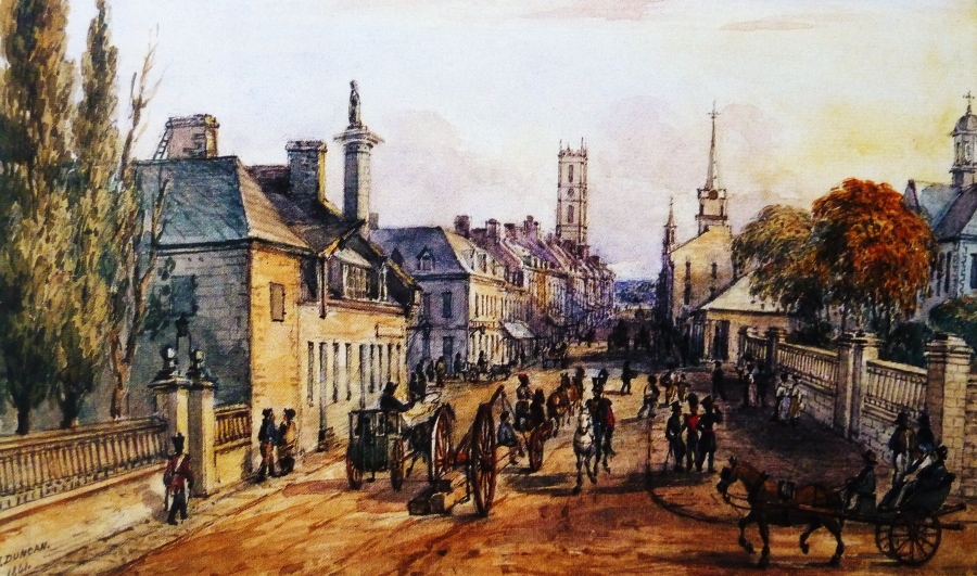 The house on the left was maison Nicolas Daneau de Muy, or maison Bécancour, built in 1703. It belonged to James McGill from 1777 to 1808 [1]. It was demolished in 1903.